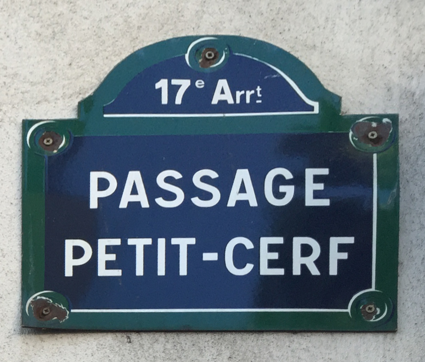 This photograph was taken with an iPhone 6